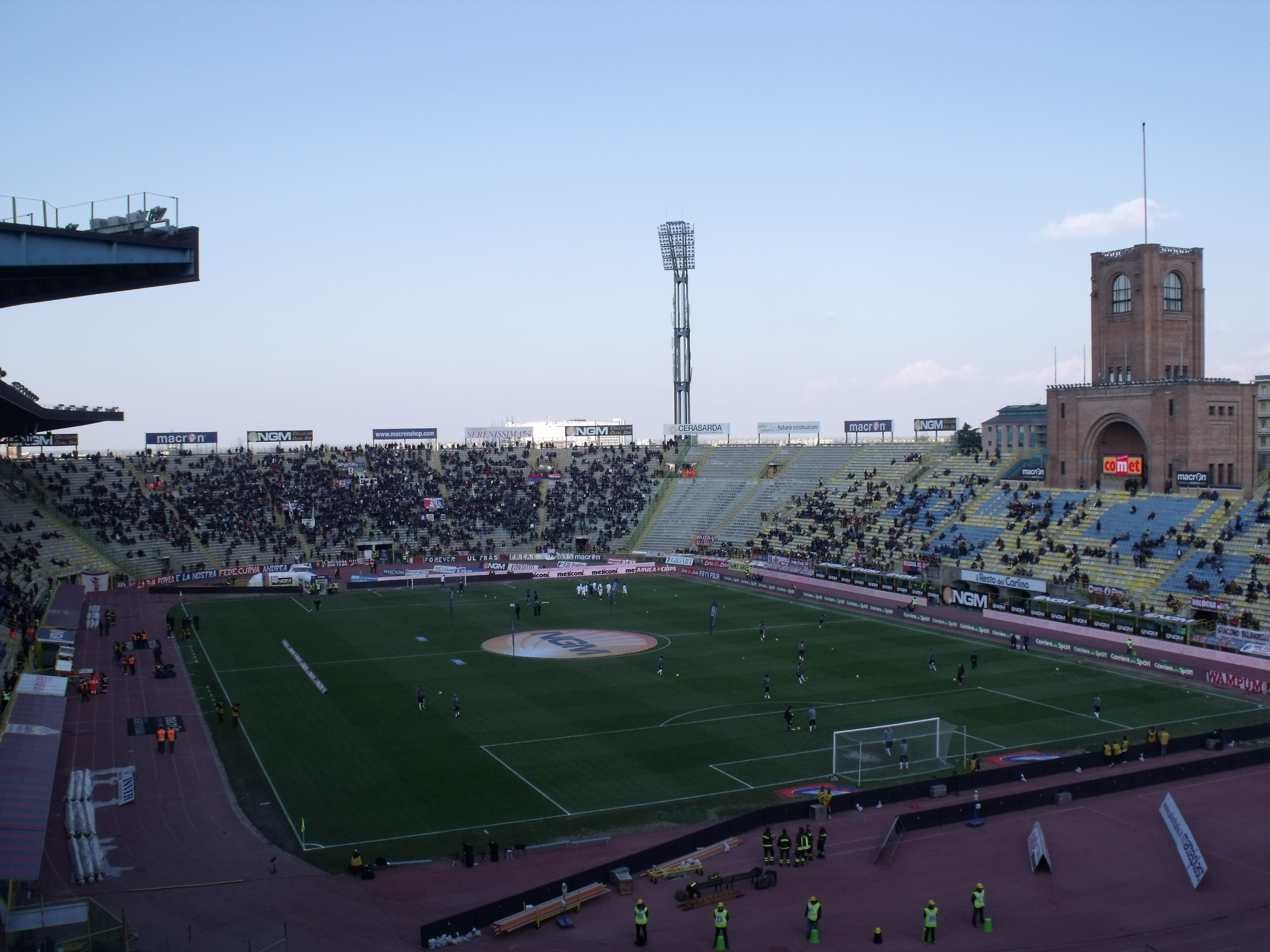 Stadio Renato Dall’Ara in Bologna